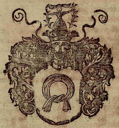 Coat of arms Nałęcz from Orbis Poloni by Simon Okolski